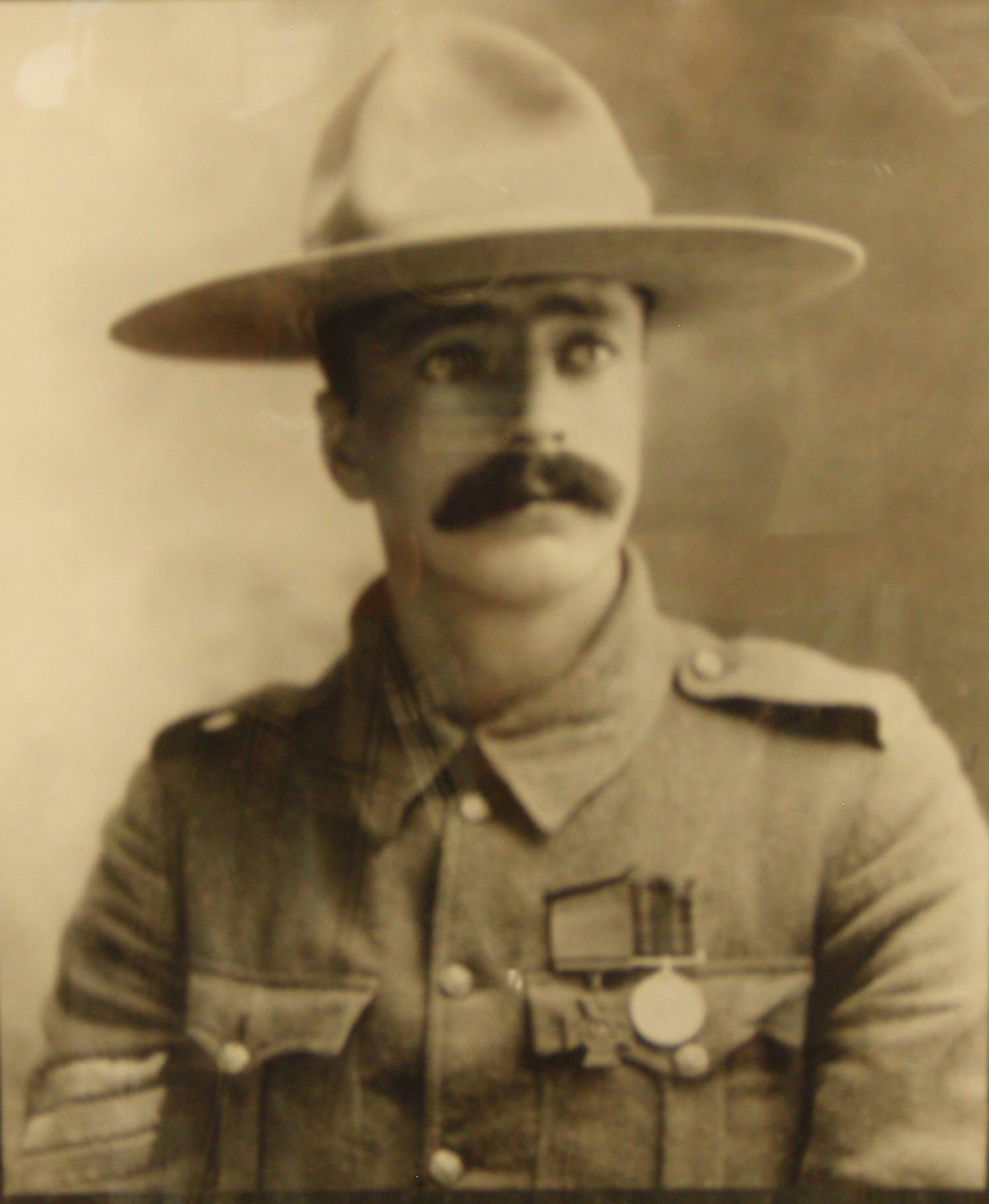 Image of the photograph of Victoria Cross recipient, Sgt. Arthur Herbert Lindsay Richardson. "Regimental No. 3058. Sgt. Arthur Herbert Lindsay Richardson, North West Mounted Police, whilst on leave to Lord Strathcona’s Horse, Boer War, South Africa (1899-1902), honoured “For Valour” with the most prized decoration of the British Military, the “Victoria Cross”; returning to service with the North West Mounted Police - and Royal North West Mounted Police (1904)."